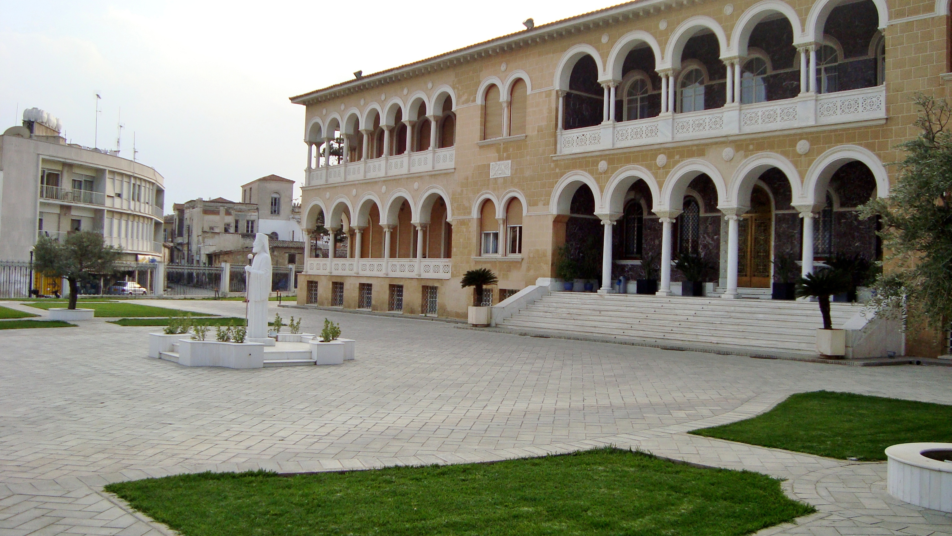 Archbishop's Palace of the Cyprus orthodox church, now an art museum, in Nicosia.